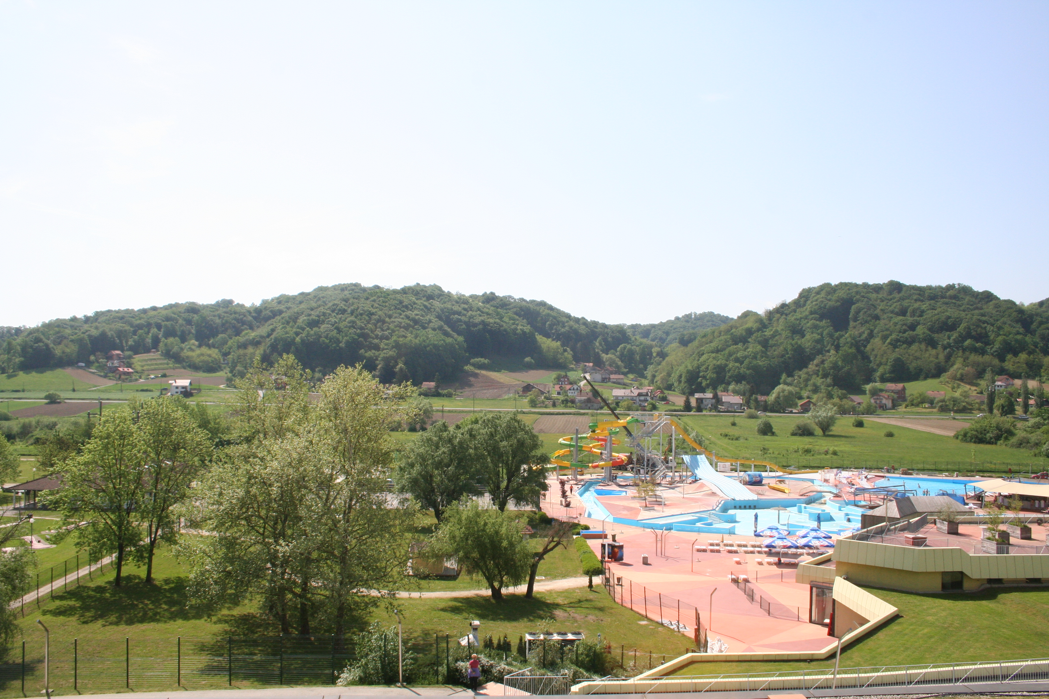 Outdoor pools in Terme Tuhelj.